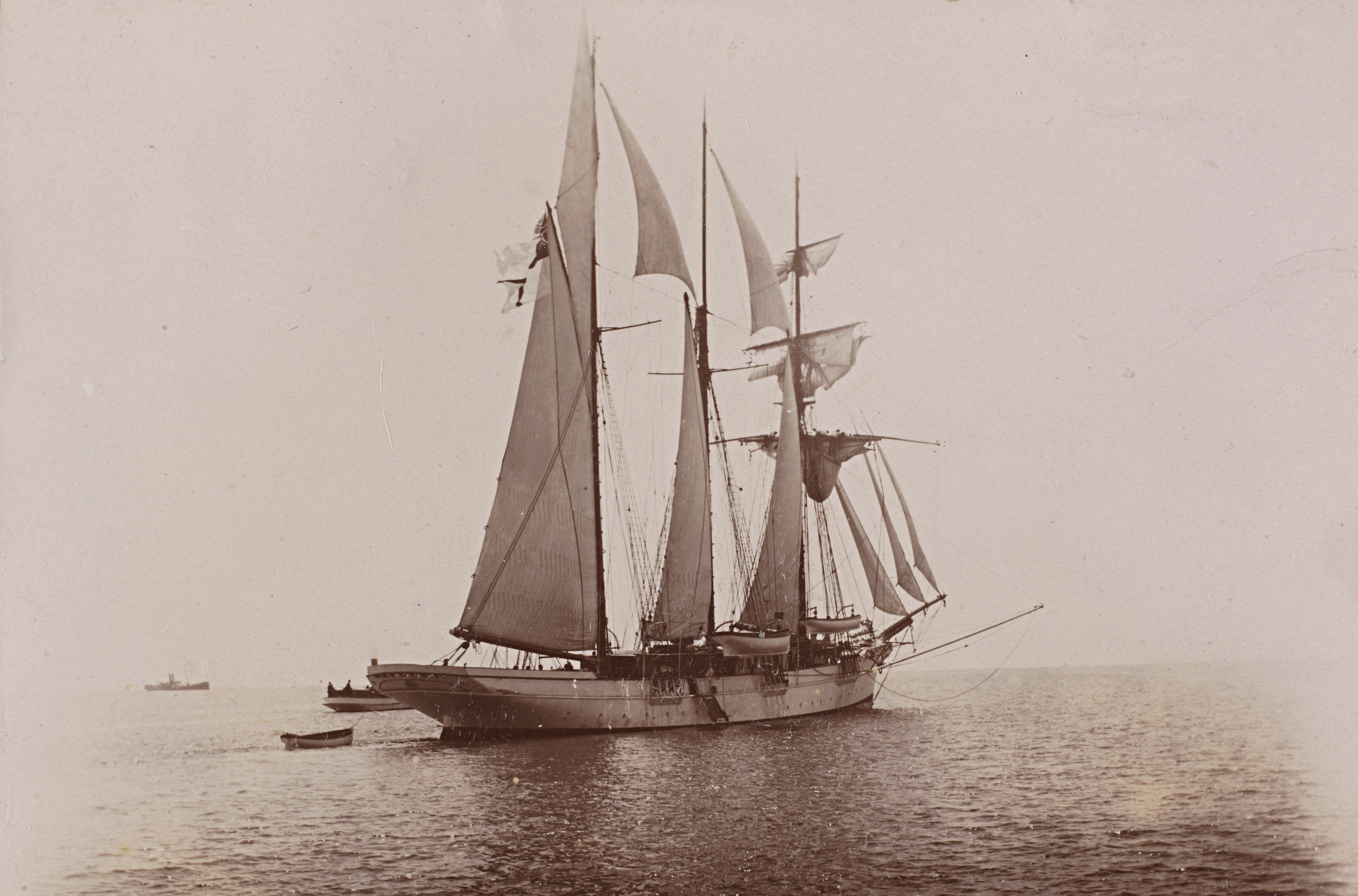 Original caption: “Lord Brassey's Yacht "Sunbeam", Shows a large yacht in full sail.”